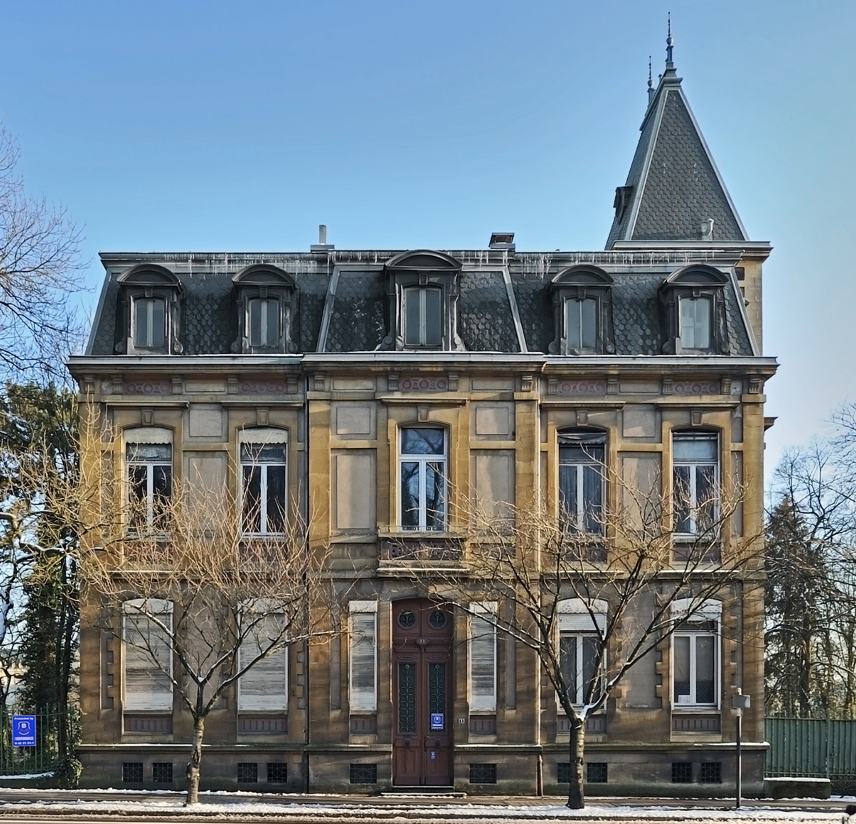 Luxembourg City: Villa Baldauff, 1880 building, 2, avenue Marie-Thérèse